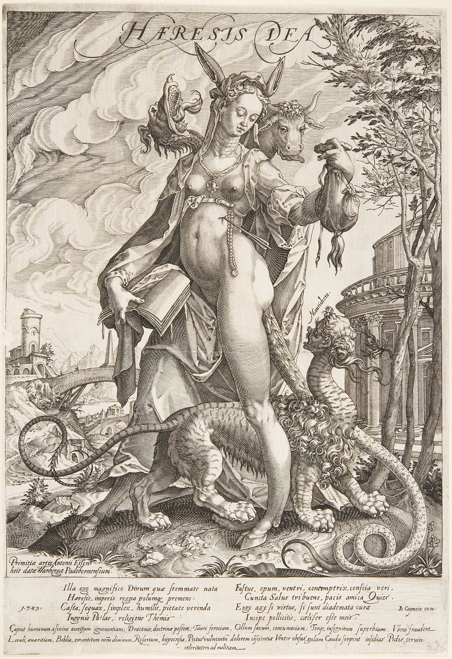 Heresy as goddess together with a Manticore